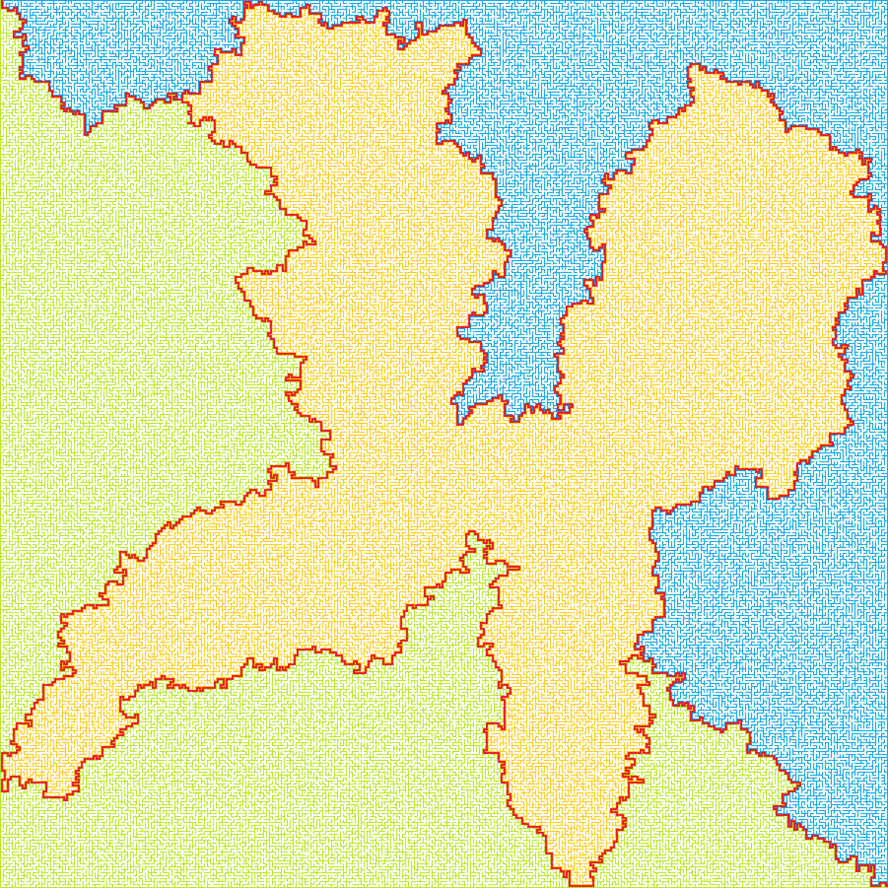 Solution to this maze. The colors show the different connected components of the wall. Notice that the solution is precisely the boundary of the connected components of the wall of the maze.